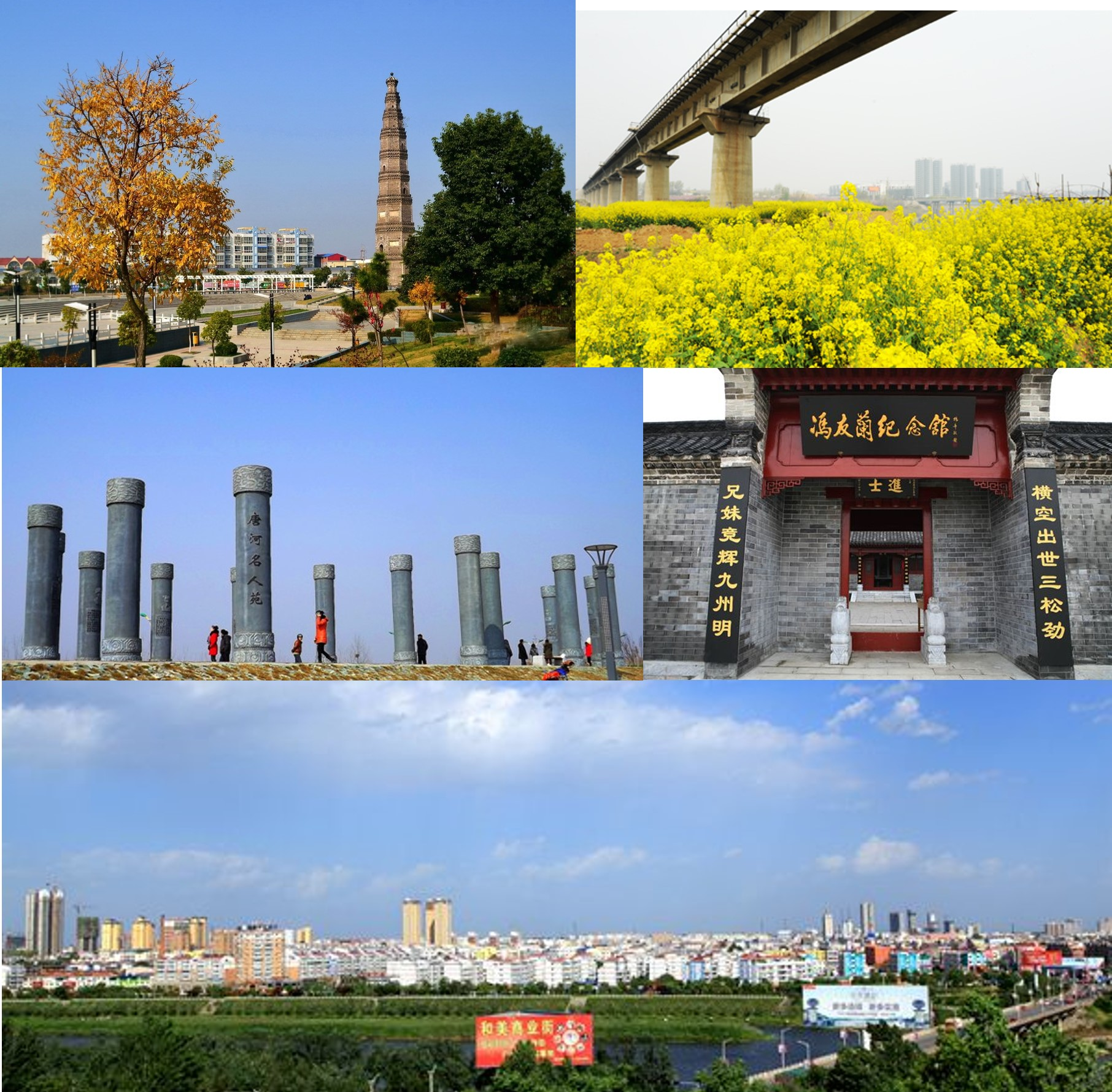 Scenery of Tanghe